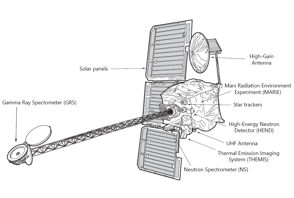 2001 Mars Odyssey's scheme in English